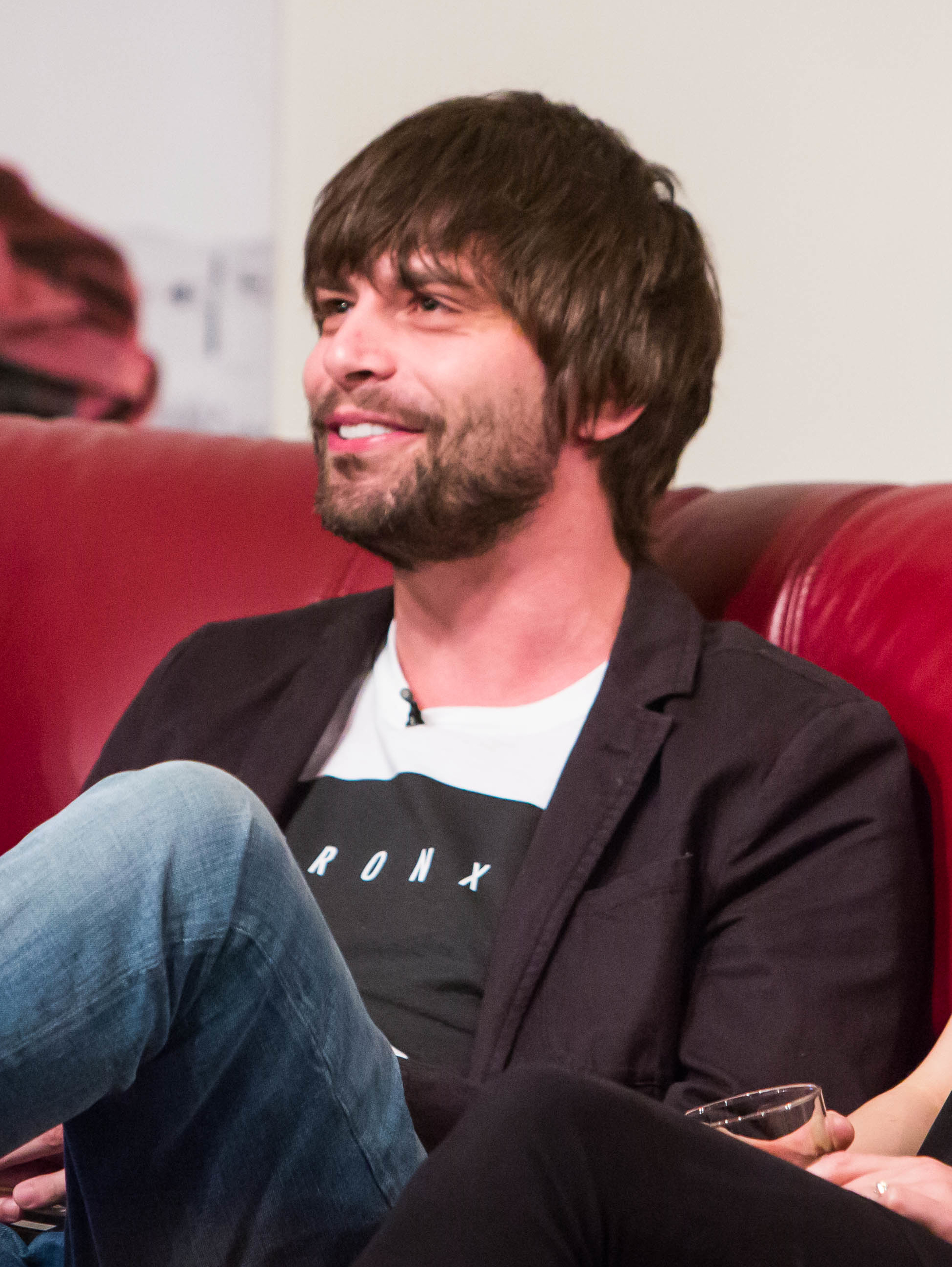 Benson Taylor at Fundraiser